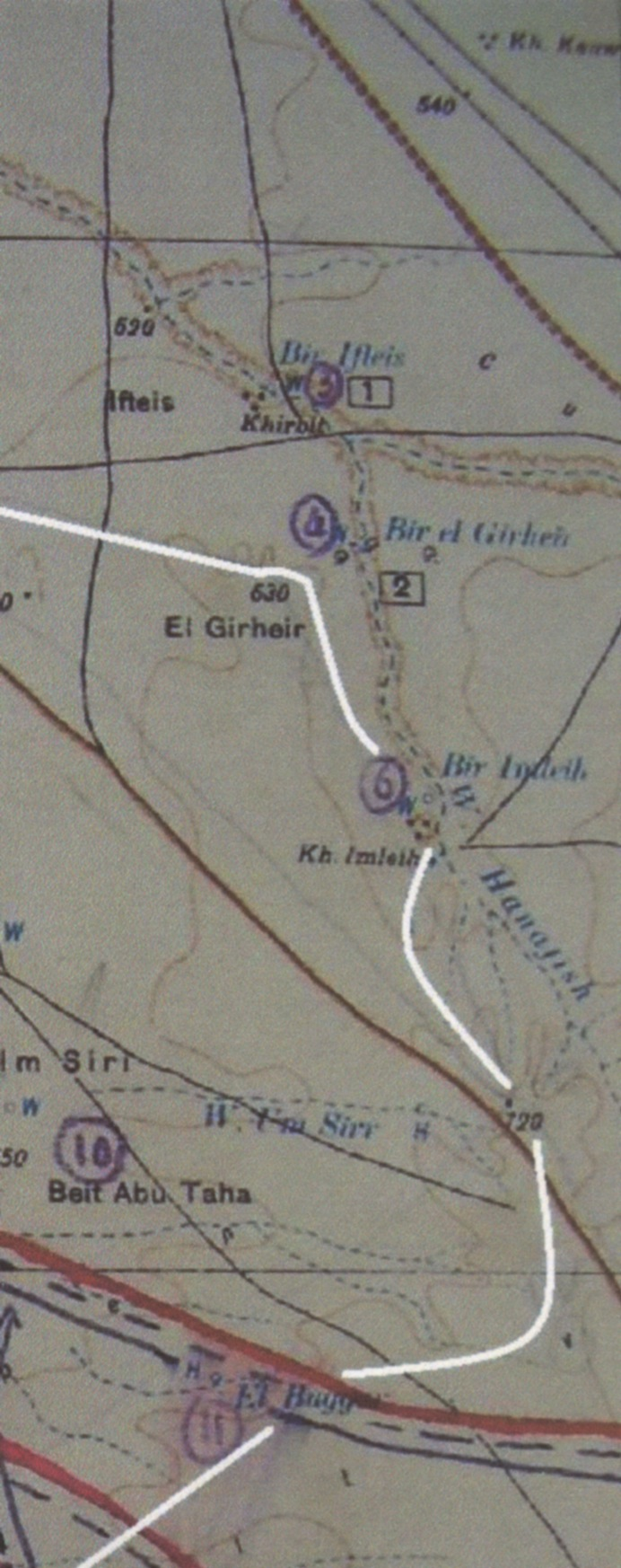 Map of Karm and el Buqqar defensive line Other information British Army map with Creative Commons 3.0 license regarding white line. Detail of File:Karm&el–buggar 1.jpg.